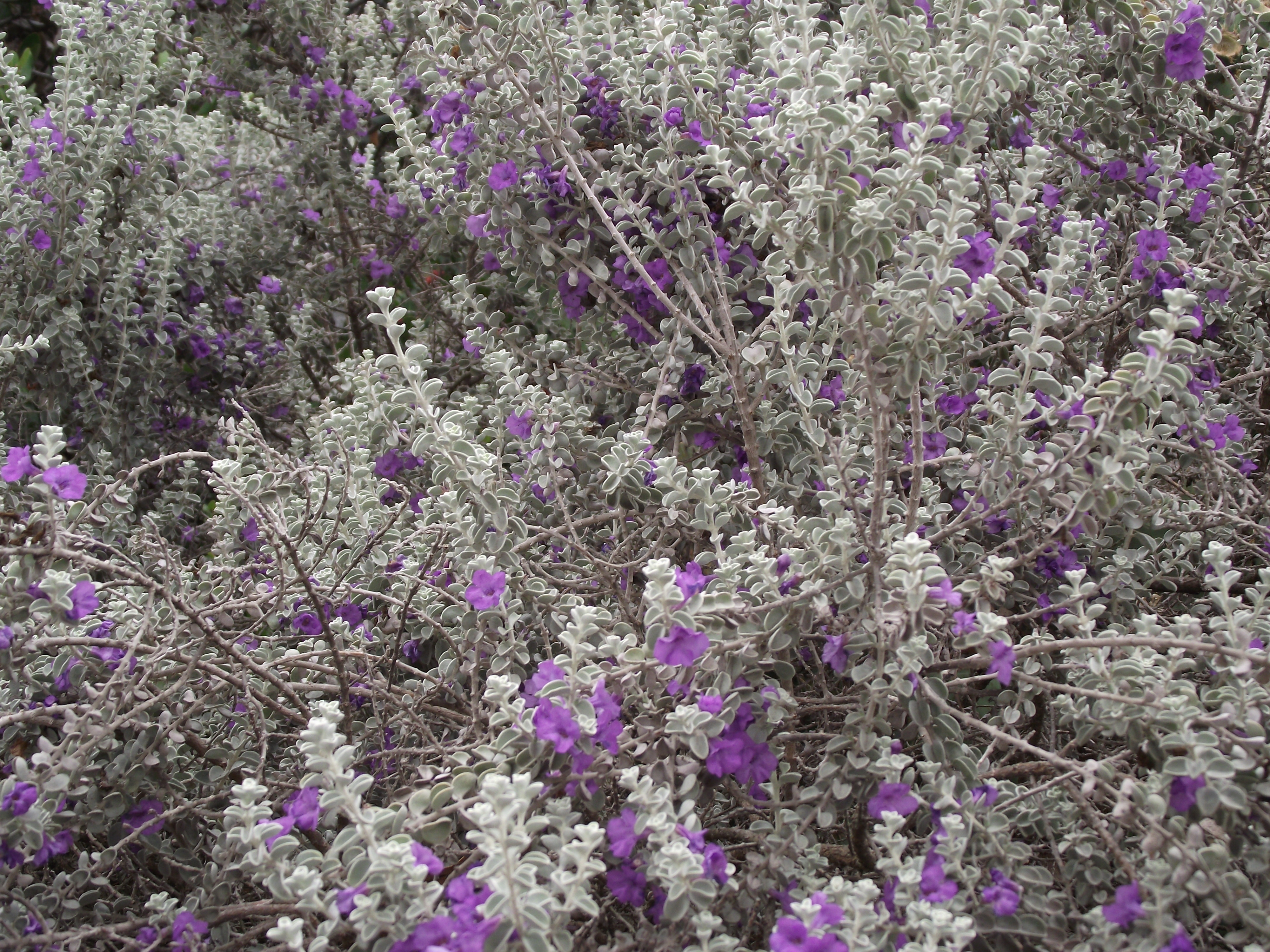 Leucophyllum zygophyllum 'Cimarron' at San Diego Botanic Garden, Encinitas, California, USA. Identified by sign.